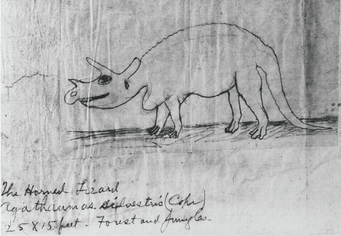 Original sketch depicting a life restoration of the ceratopsian dinosaur Agathaumas silvestris by E.D. Cope, based on the more complete skeleton of Triceratops prorsus, which Cope considered to be a synonym of Agathaumas.